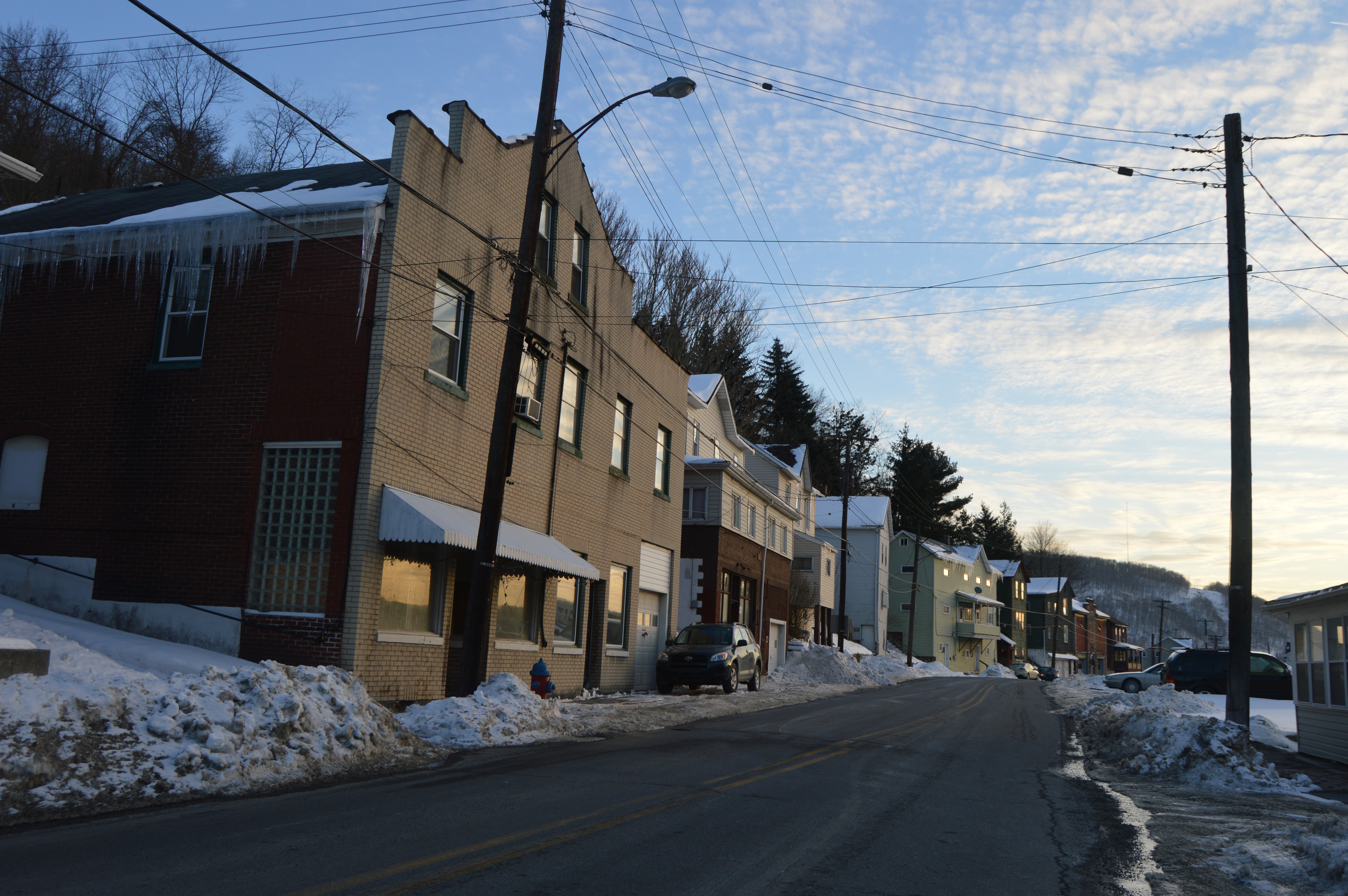 Looking southwest on Main Street in Franklin, Pennsylvania, United States, from near the Depot Alley intersection.